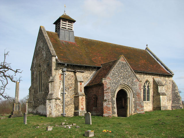 St Andrew's parish church, Frenze, Norfolk, seen from the southwest